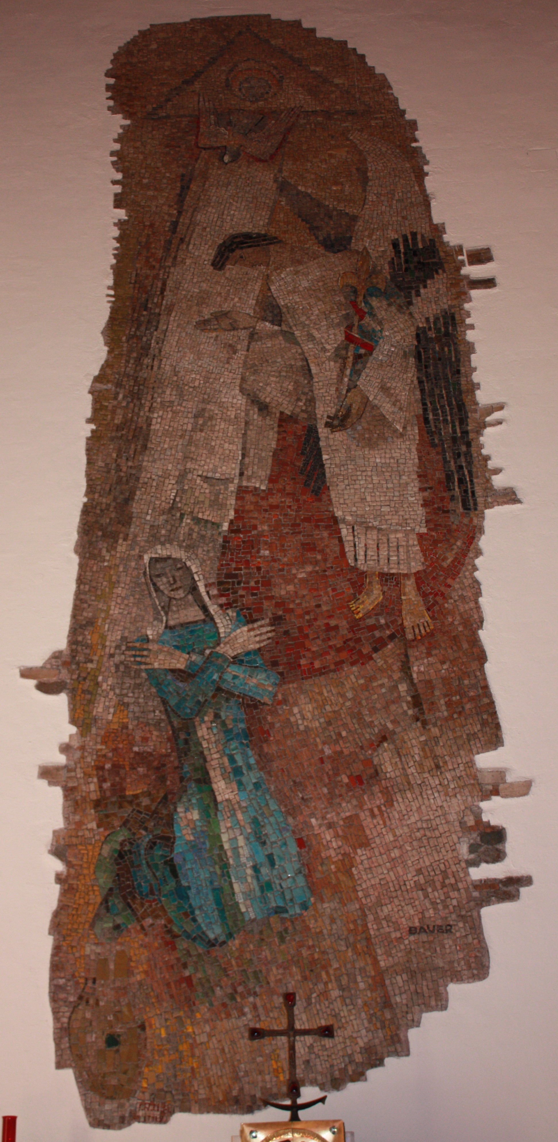 Parish church - Mosaic - Annunciation Locality: Spittal an der Drau Community:Spittal an der Drau